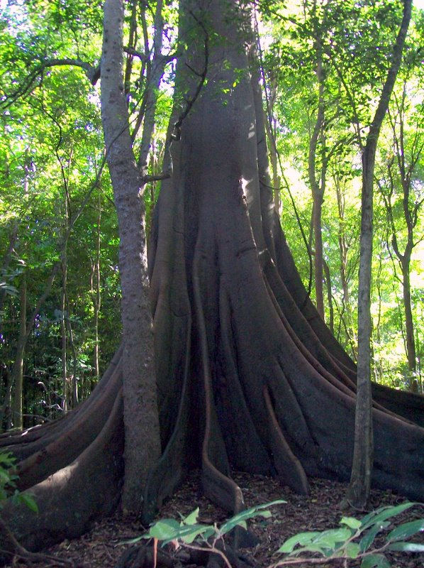 Ficus macrophylla at Wingham Brush, Australia